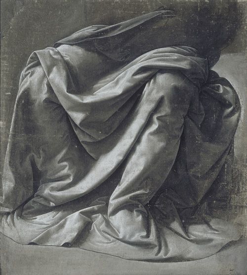 Drapery Study for a Seated Figure (c. 1470) by Leonardo da Vinci, Brush and grey tempera on "tela di lino" prepared in grey, 26.6 x 23.3 cm, Louvre Paris